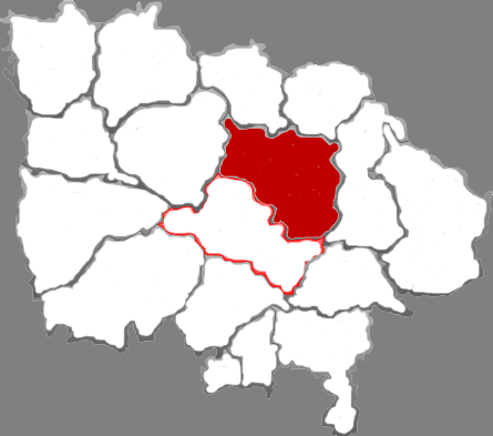 Location of Hongtong county in Linfen City, China